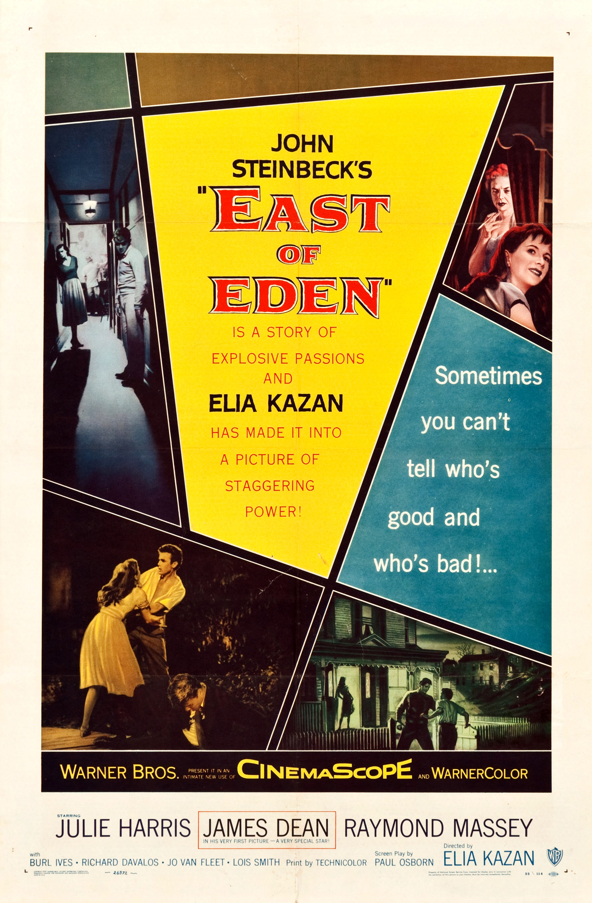 Theatrical release poster for the 1955 film East of Eden, based on John Steinbeck's 1952 novel of the same name.